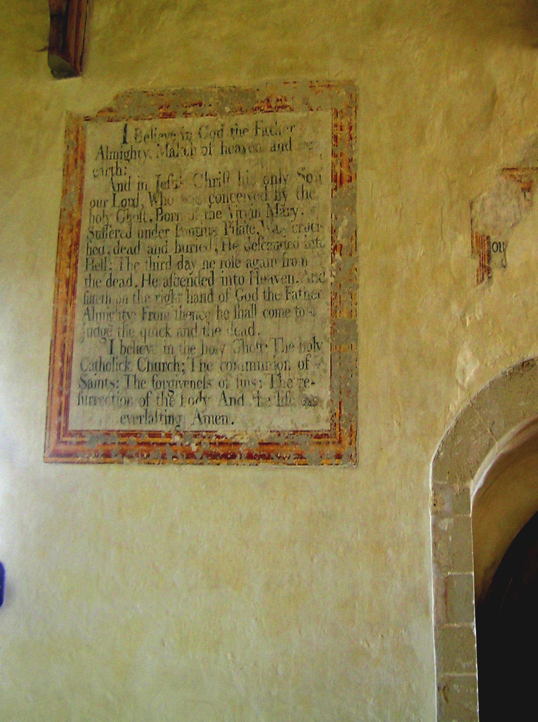 Wall painting (17th century?) of the Creed on S wall of nave of the parish church of St Mary the Virgin at Radnage, Bucks, England from the south